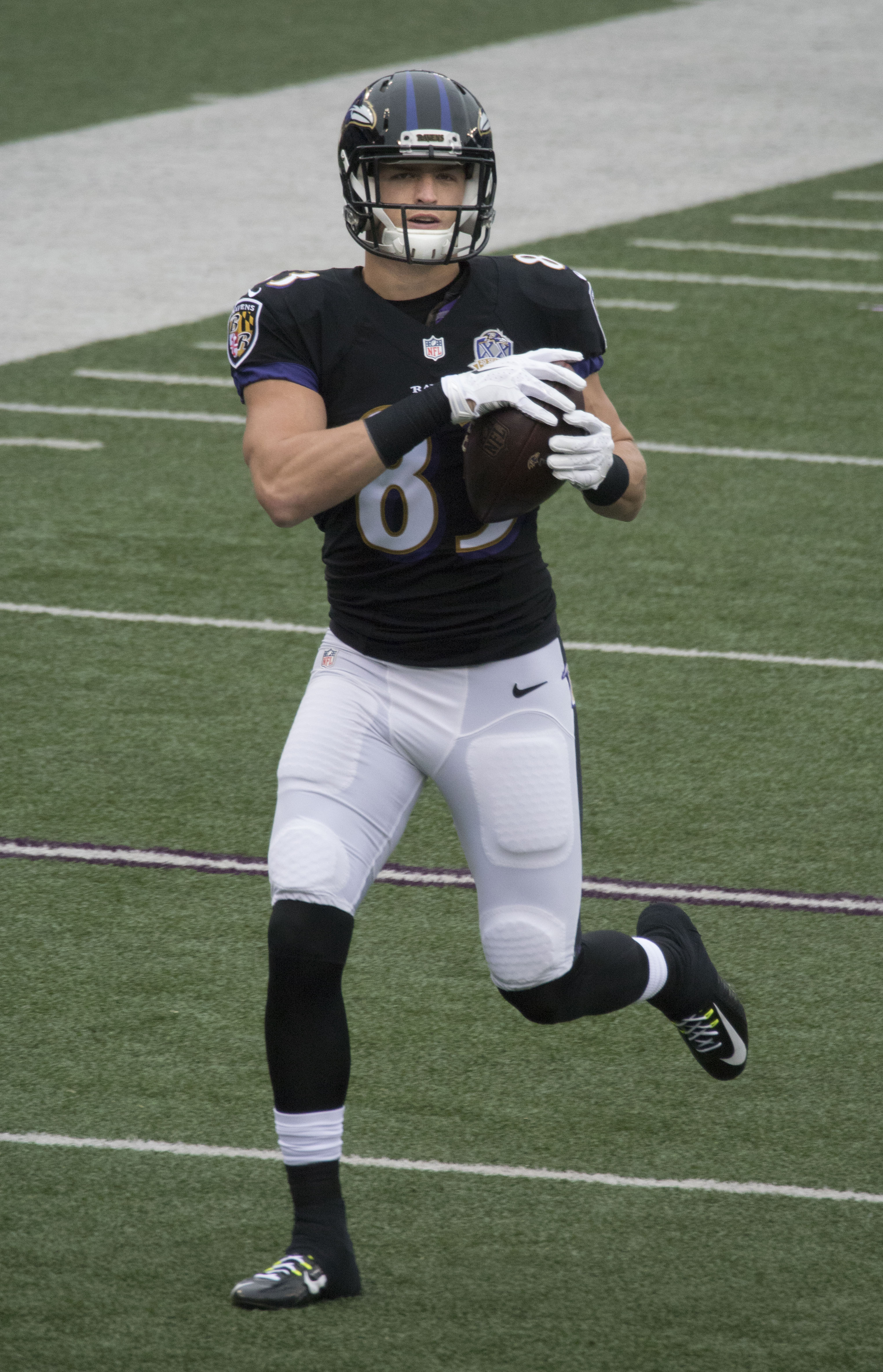 Steelers at Ravens 12/27/15